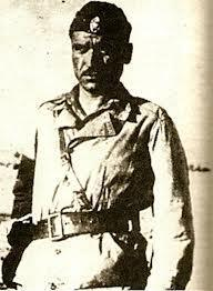 Commander of the Cavalry Corps of the Greek People”s Liberation Army